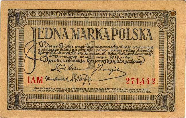 1 marka polskich from 1916